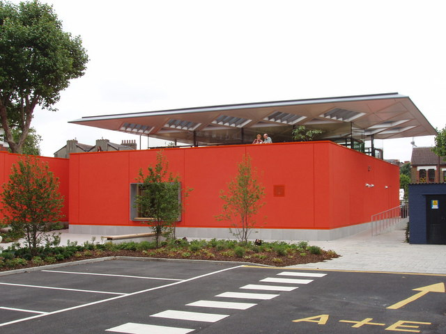 Maggie's Centre London at Charing Cross Hospital